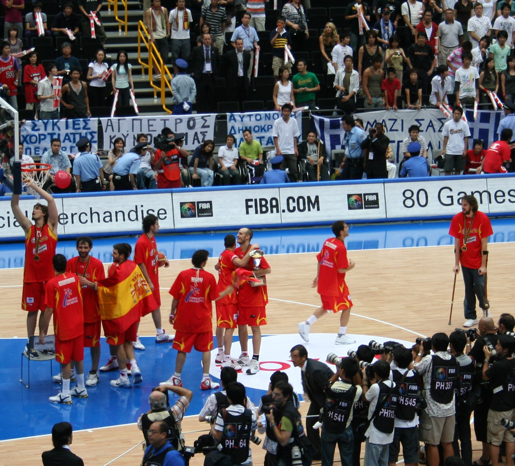 Basketball World Cup 2006 in Japan. After the final match: The winning team from Spain celebrates its victory